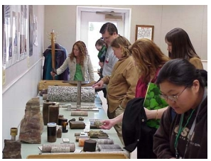 Field trip during the American Association of Geographers Annual Meeting.